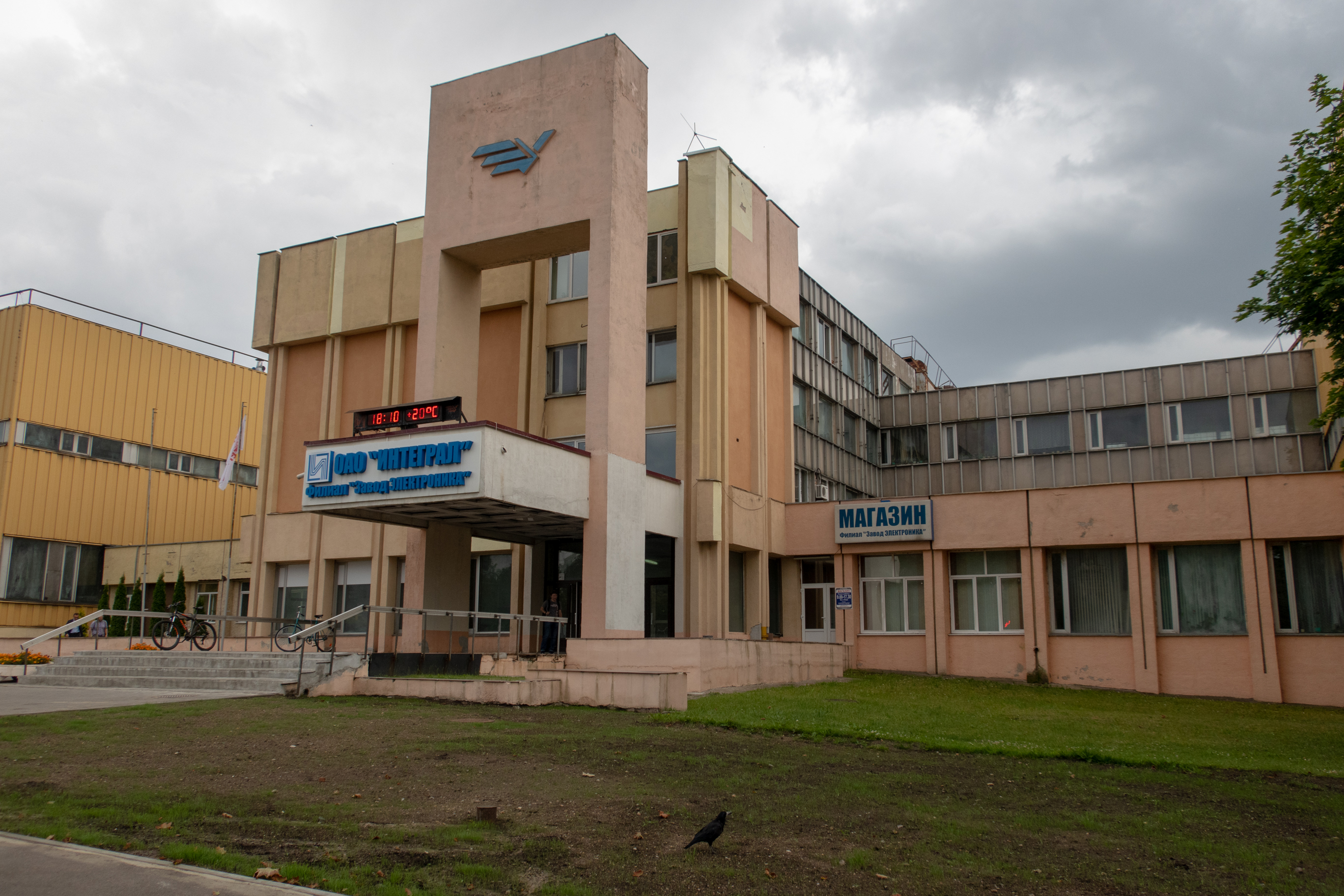 "Integral" company (Minsk, Belarus)